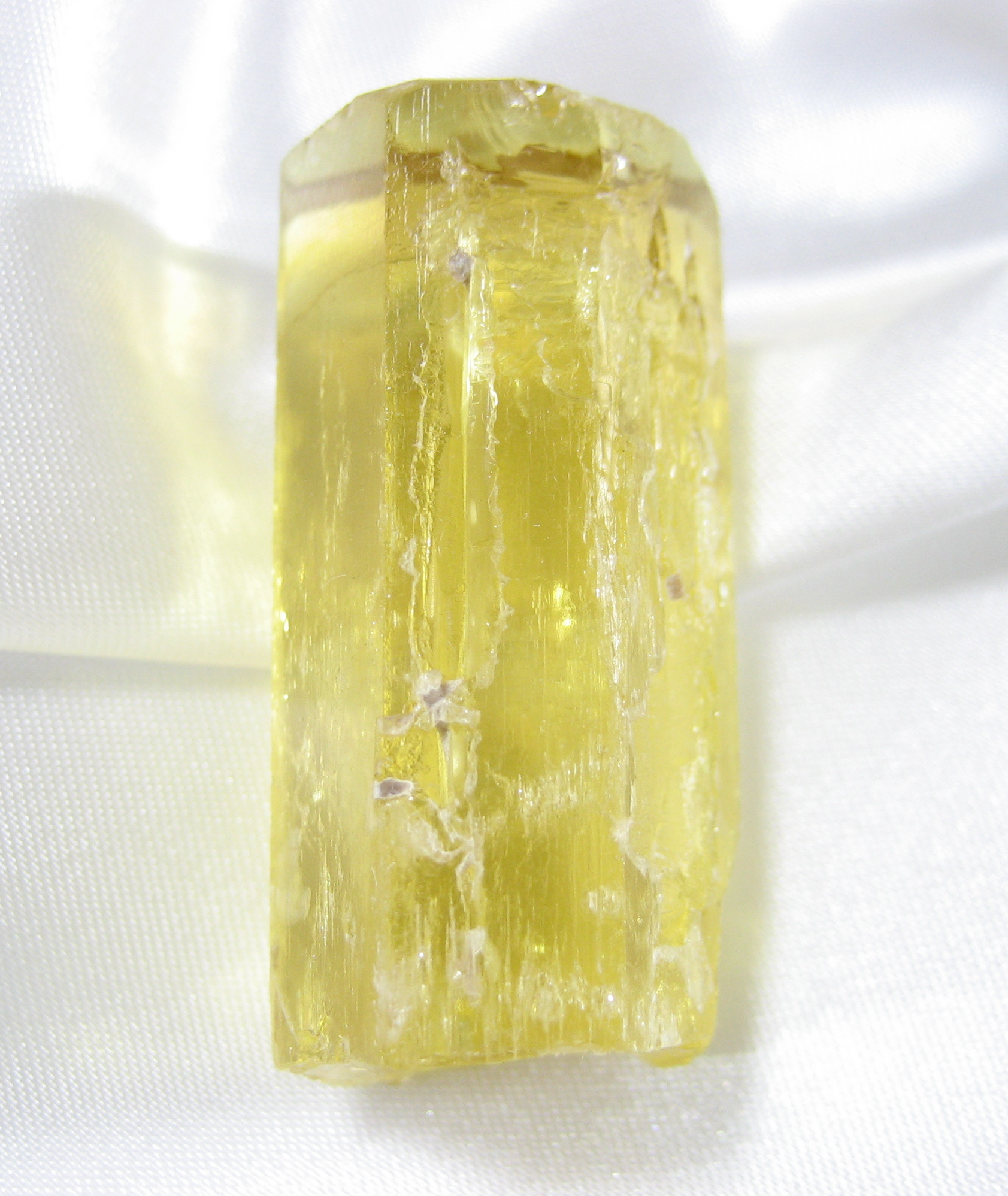 Beryl made in Tajikistan. taken by Azuncha.